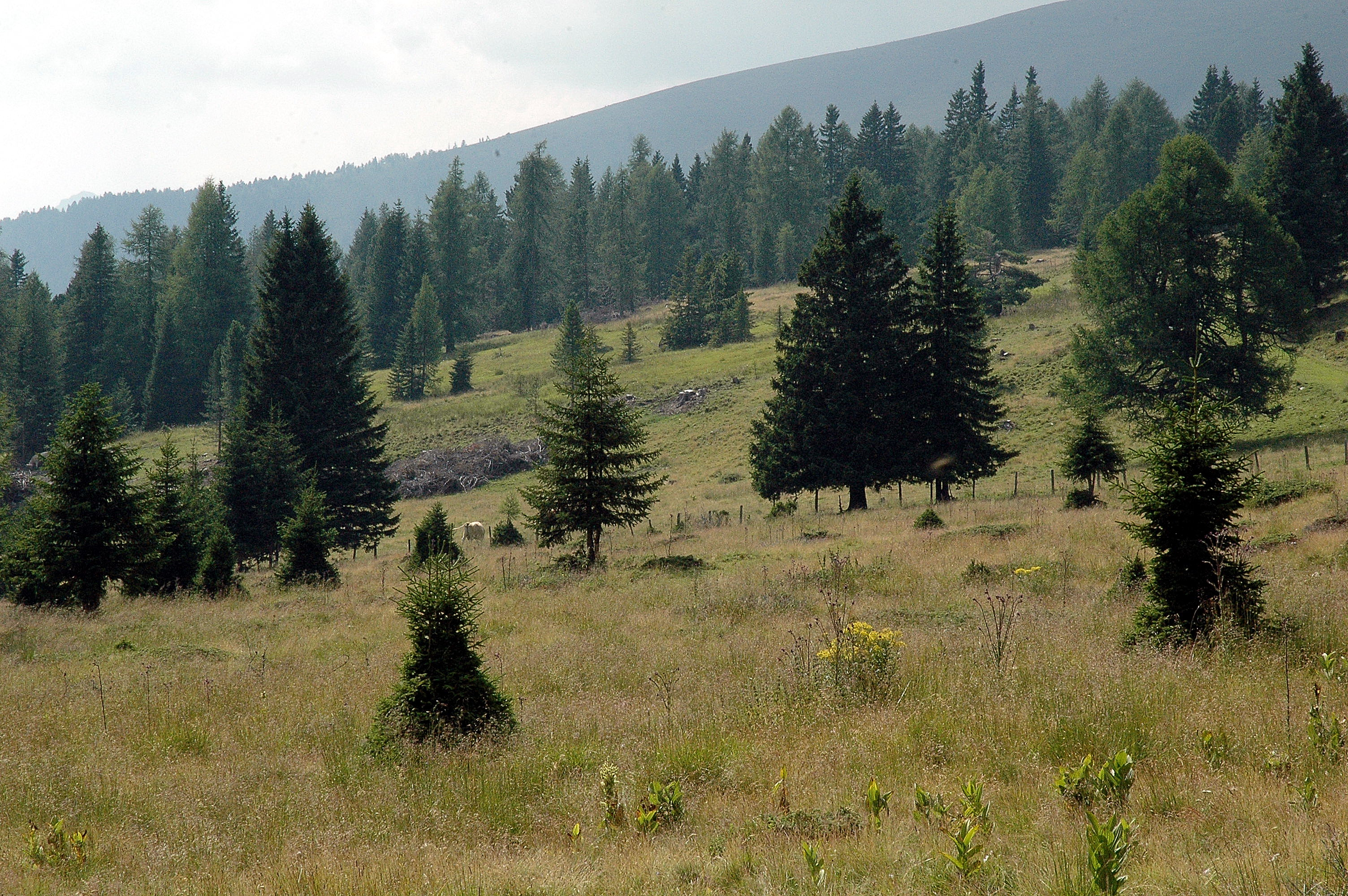 Estival larches Larix decidua, arolla pines Pinus cembra, and spruces Picea abies, Hochrindl, municipality Albeck, district Feldkirchen, Carinthia / Austria / EU